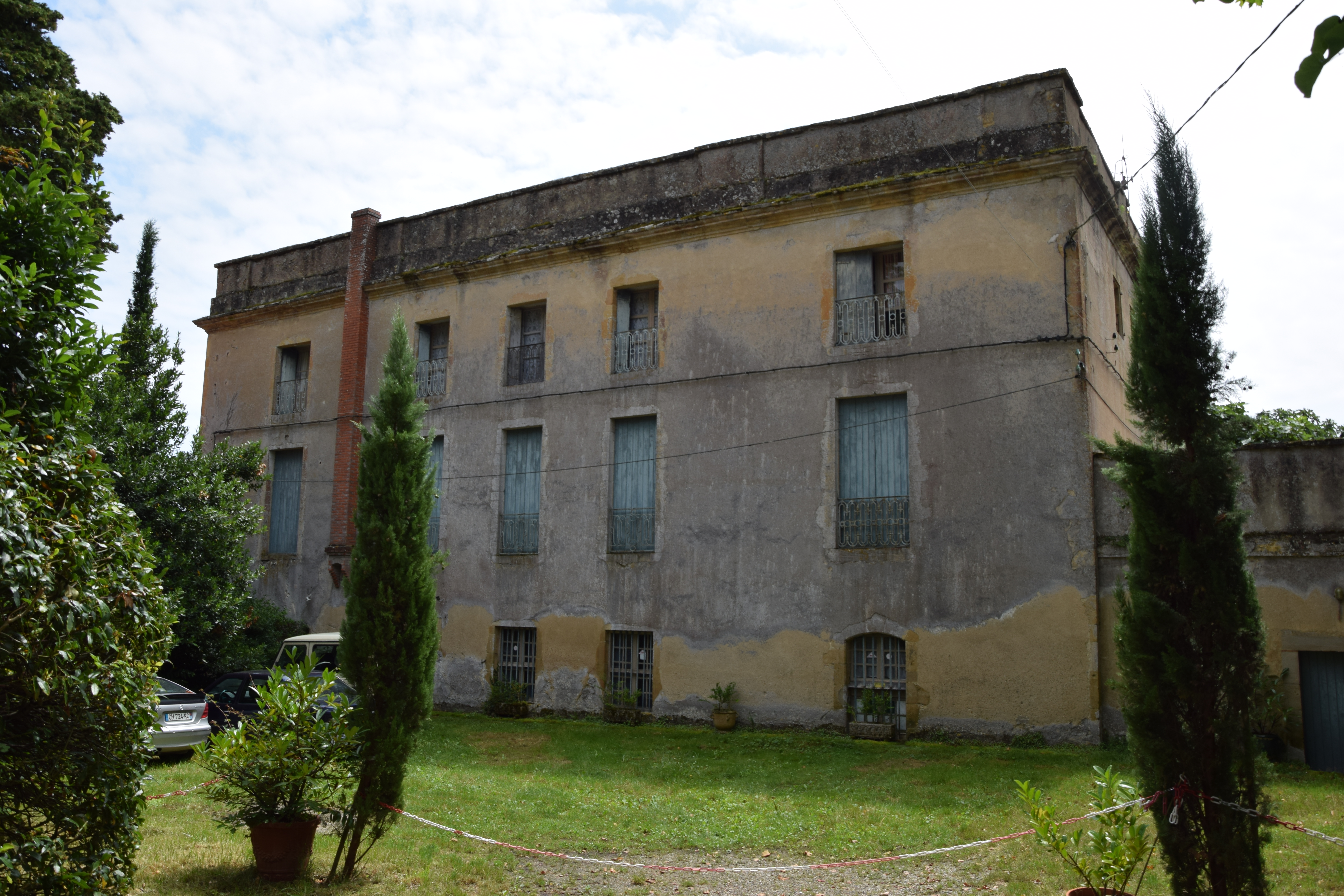 Castle of Cahuzac